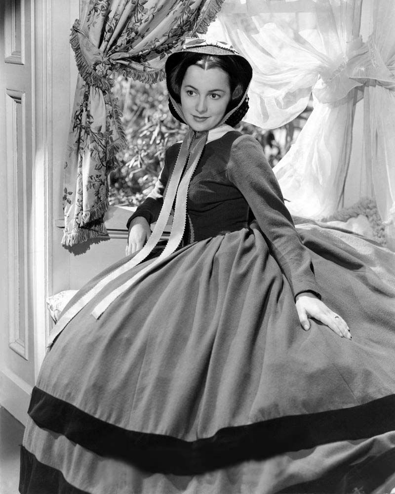 Olivia de Havilland publicity photo for Gone with the Wind, 1939